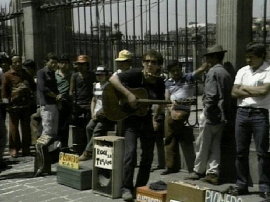 Rockdrigo. Rock an trovero. Catedral de la Ciudad de México, 1985.